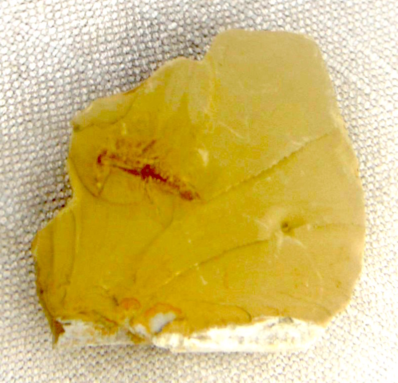 Fossil specimen of Cindarella eucalla on display at the Beijing Museum of Natural History.